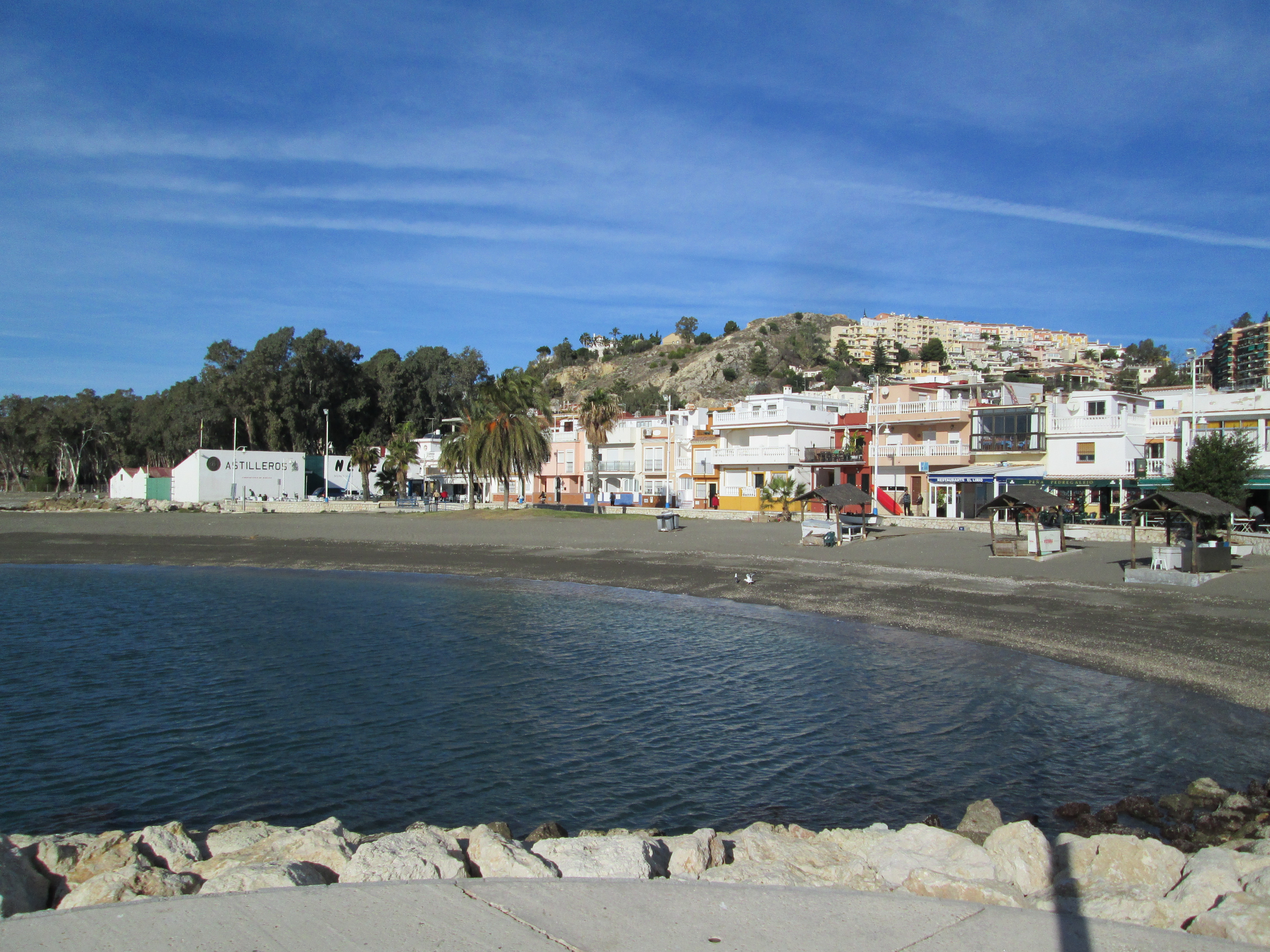 Playa de Pedregalejo